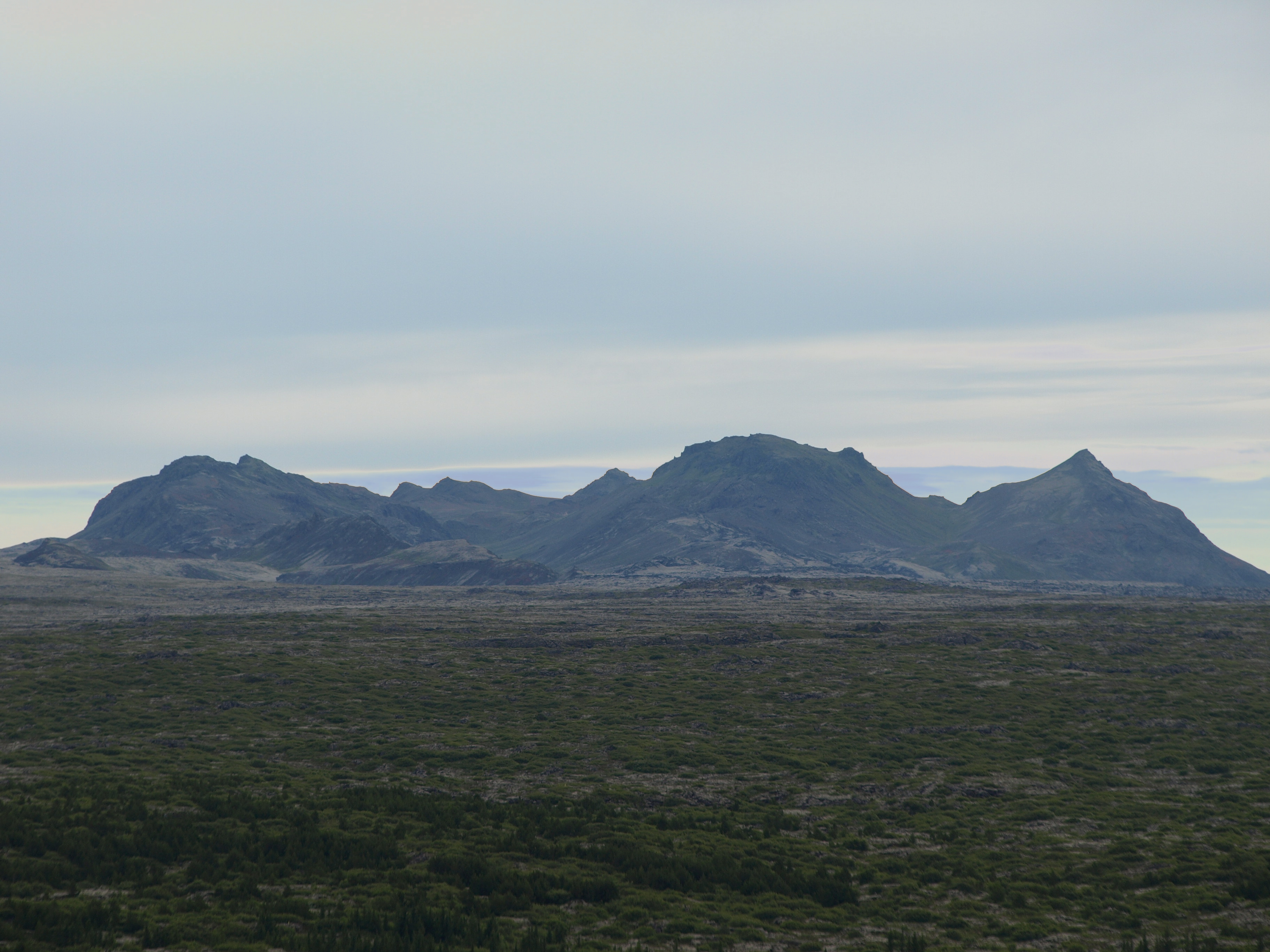 left to right: Fífluvallafjall, Grænadyngja, Trölladyngja